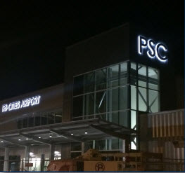 Tri-Cities Airport at Night (May 31, 2016)